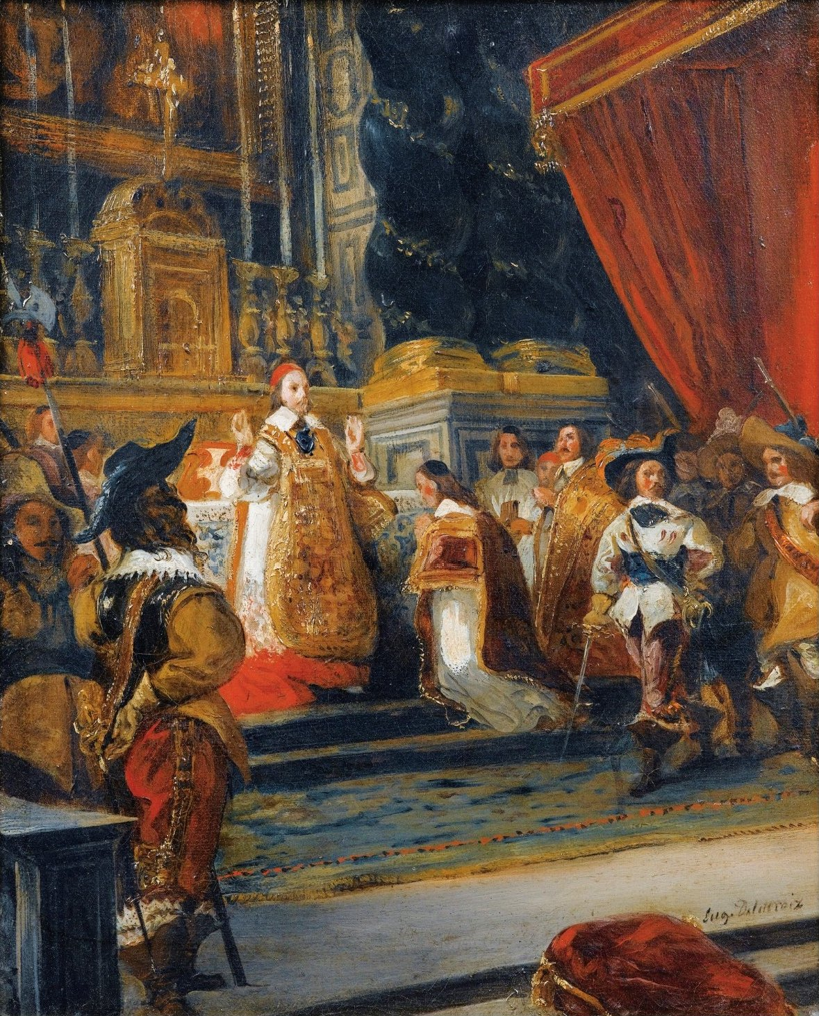 The Cardinal de Richelieu Saying Mass in the Church of the Palais Royal by Ferdinand-Victor-Eugène Delacroix , 40 x 32.4 cm.